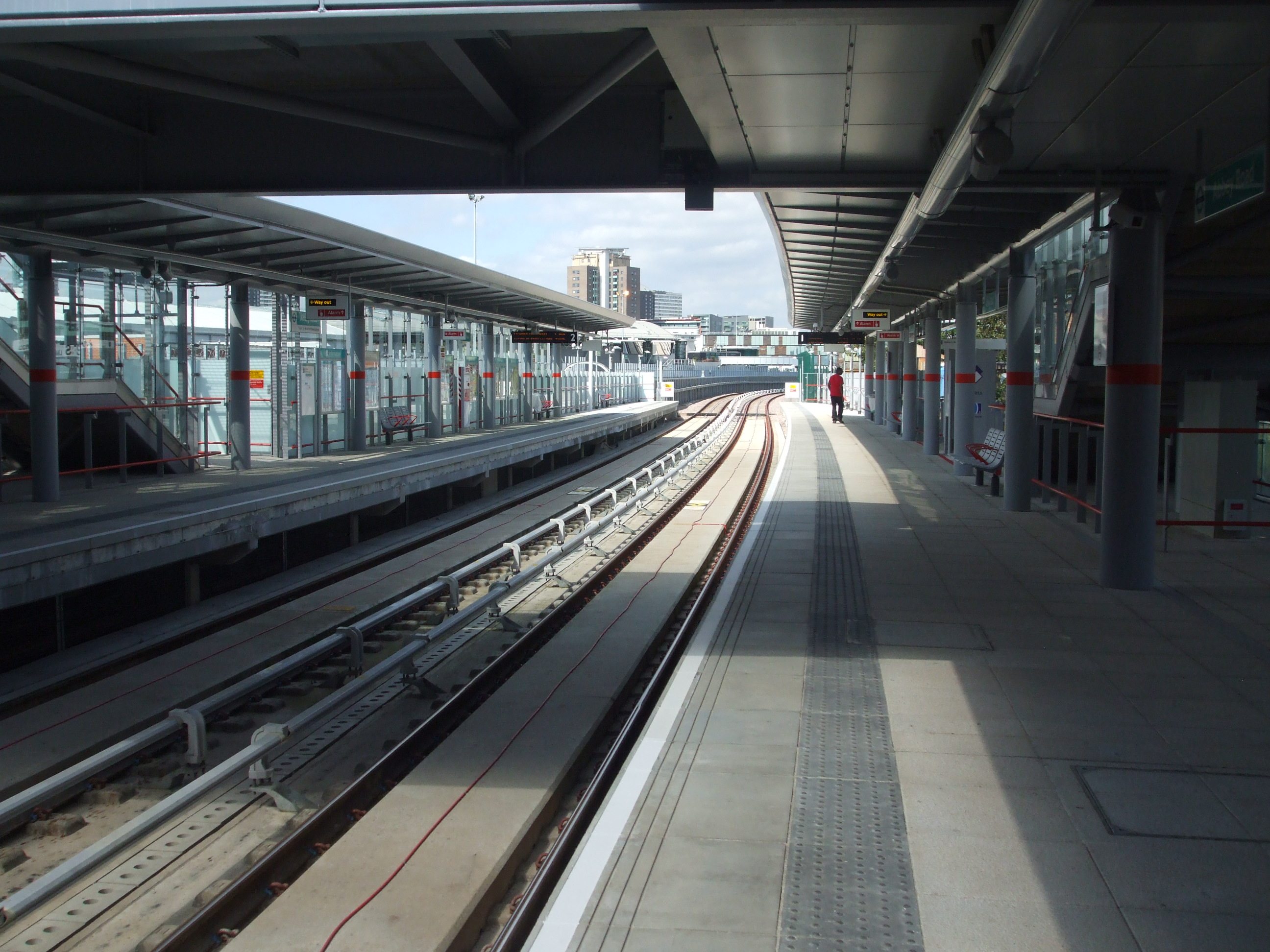 Abbey Road DLR station looking north, soon after opening